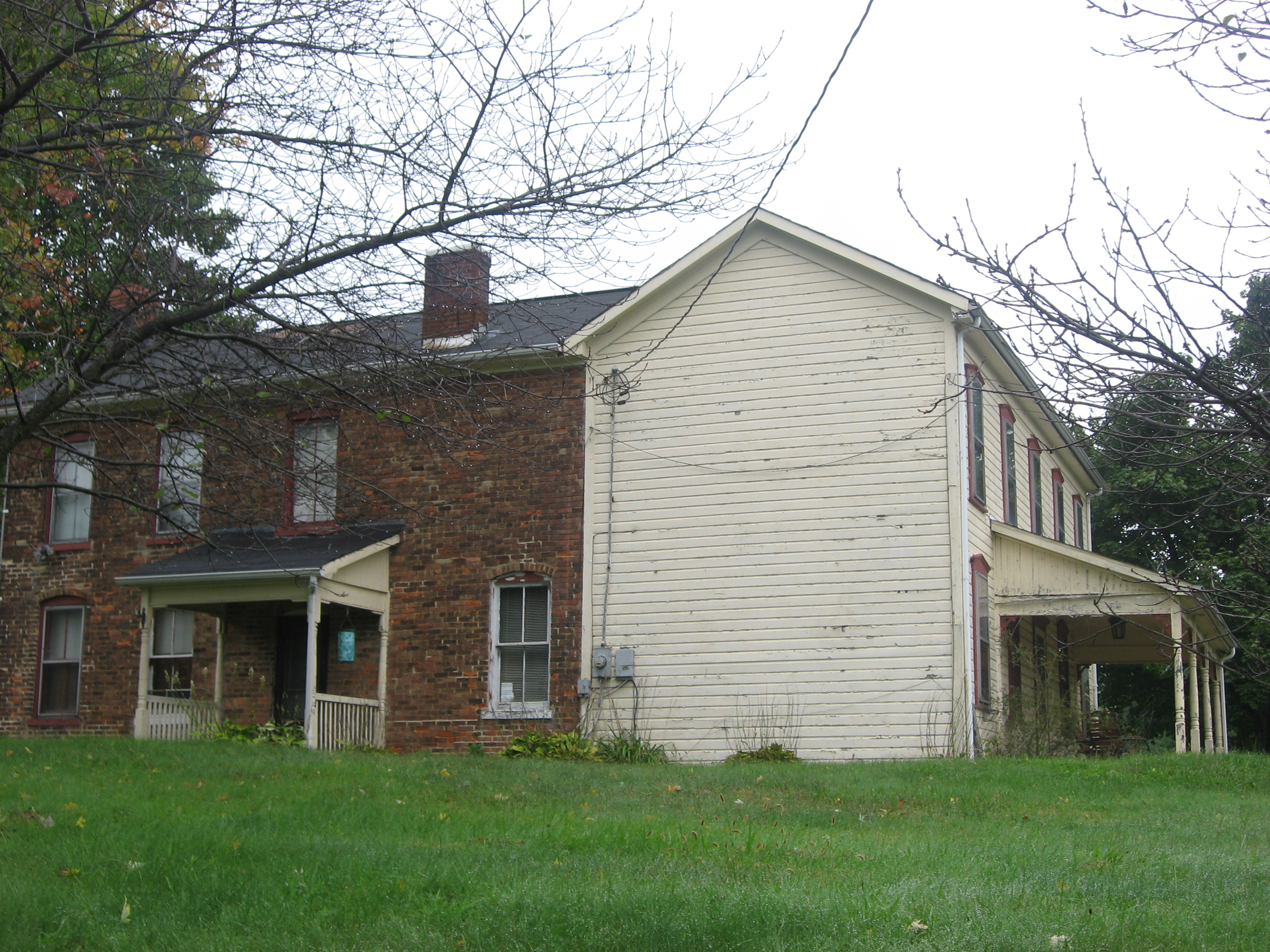 Western side and front of the Danforth Brown House, located at 555 Washington Pike just east of Wellsburg in Brooke County, West Virginia, United States. Built in 1823, it is listed on the National Register of Historic Places.